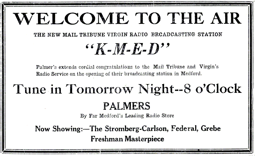 Radio station KMED in Medford Oregon made its debut broadcast on December 27, 1926